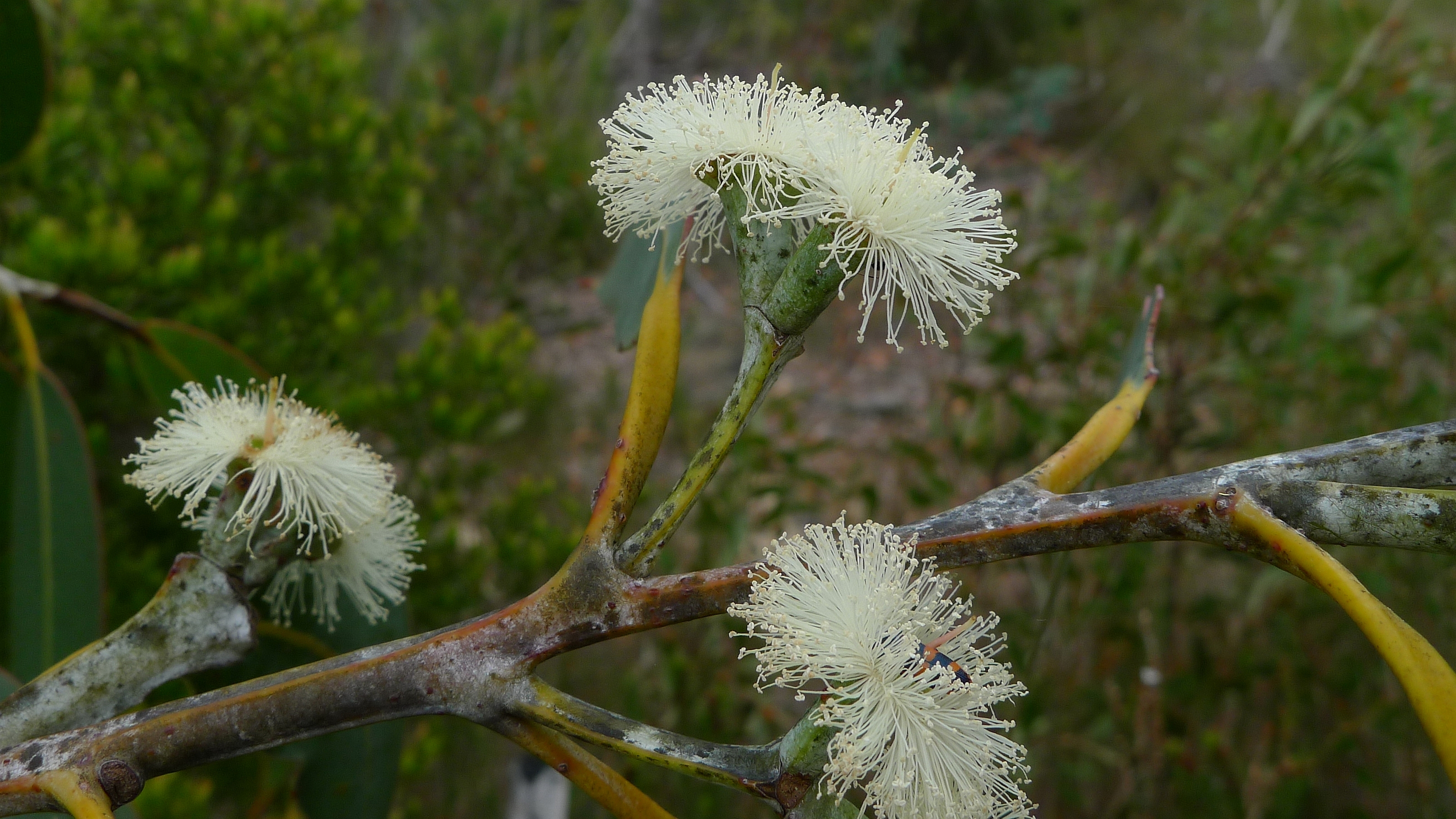 If you look closely, inside one of the flowers there appears to be a Jewel Beetle, possibly a species of Castiarina. Yellow-top Mallee Ash, Eucalyptus luehmanniana, in flower. Royal National Park, NSW Australia, December 2011.